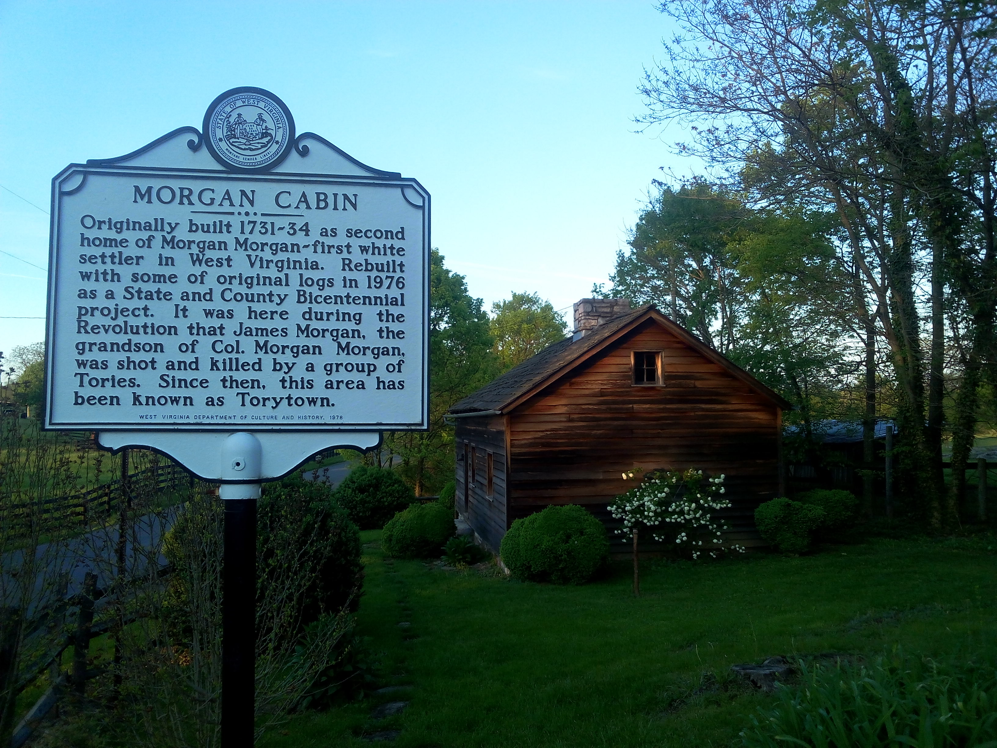 about 3 miles away from town center on runnymeade street a mile past the historic morgan chapel episcopal church and graveyard